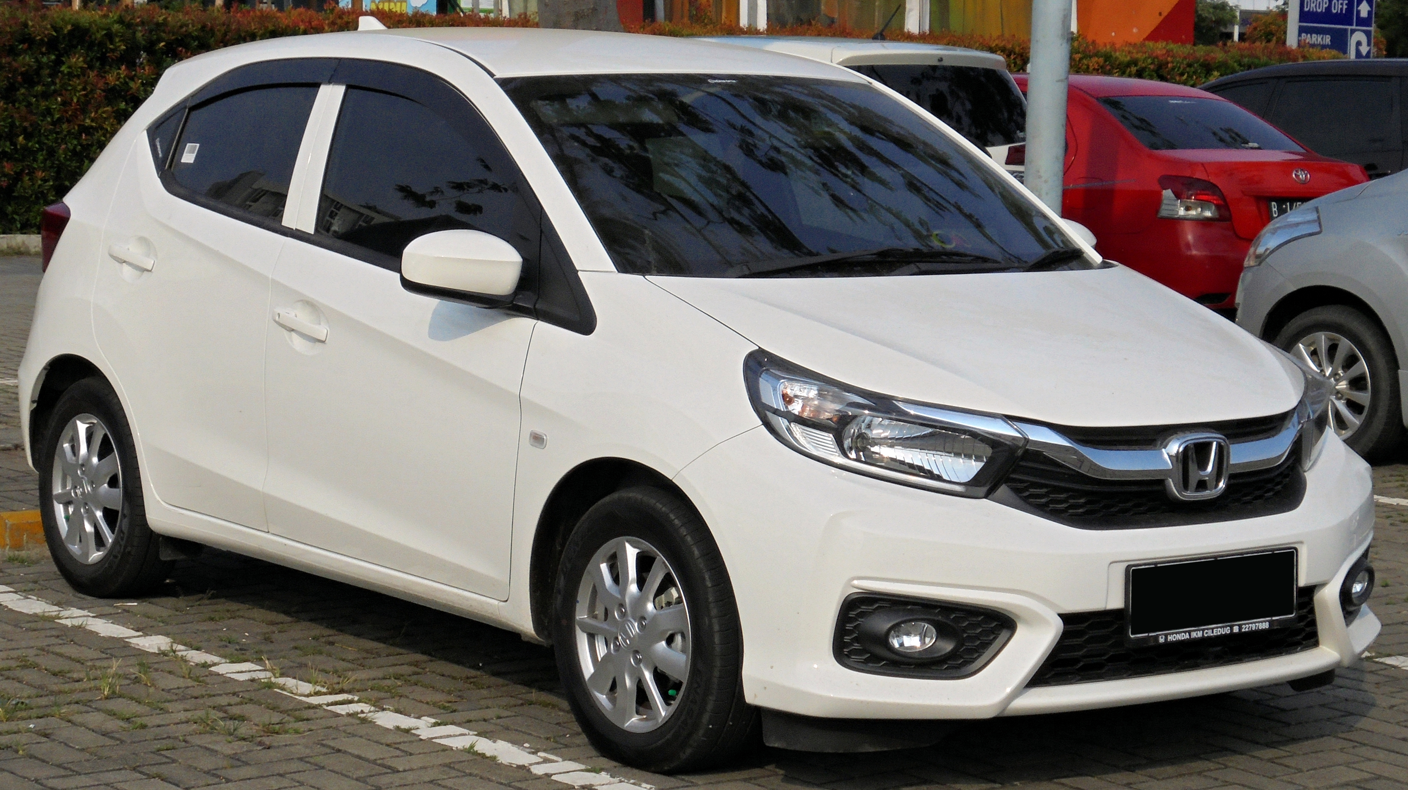 2018 Honda Brio Satya 1.2 E hatchback (DD1) photographed in South Tangerang, Banten, Indonesia.